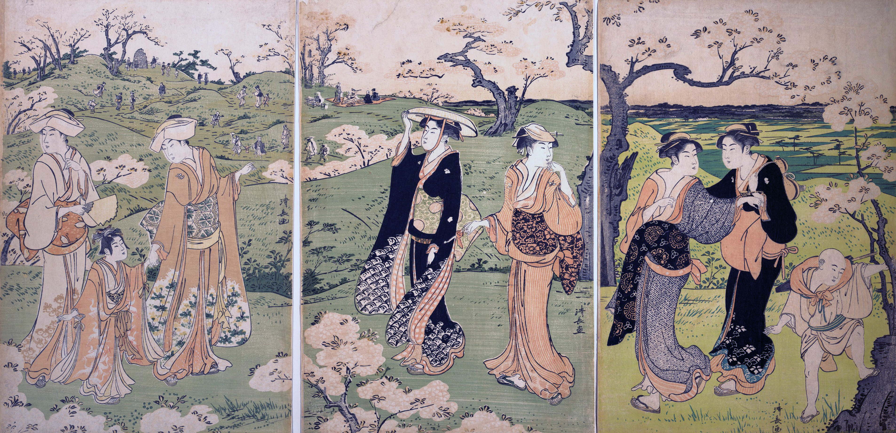 "Asukayama-mountain"is a famous viewing place among people living Edo.